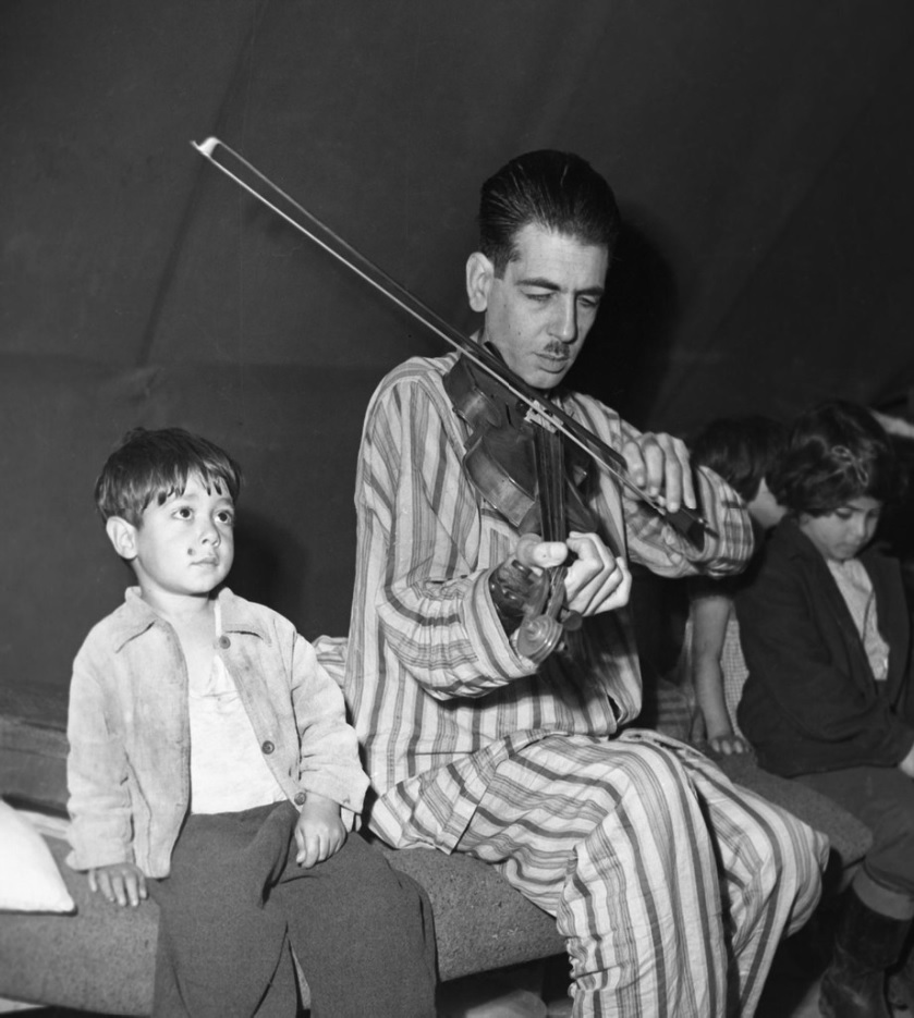 Iraqi violinist Sasoon Abdu with his family in the Ma'abara, Israel, 1952